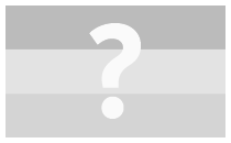 A filler for wherever a flag is missing (in an infobox, for example).